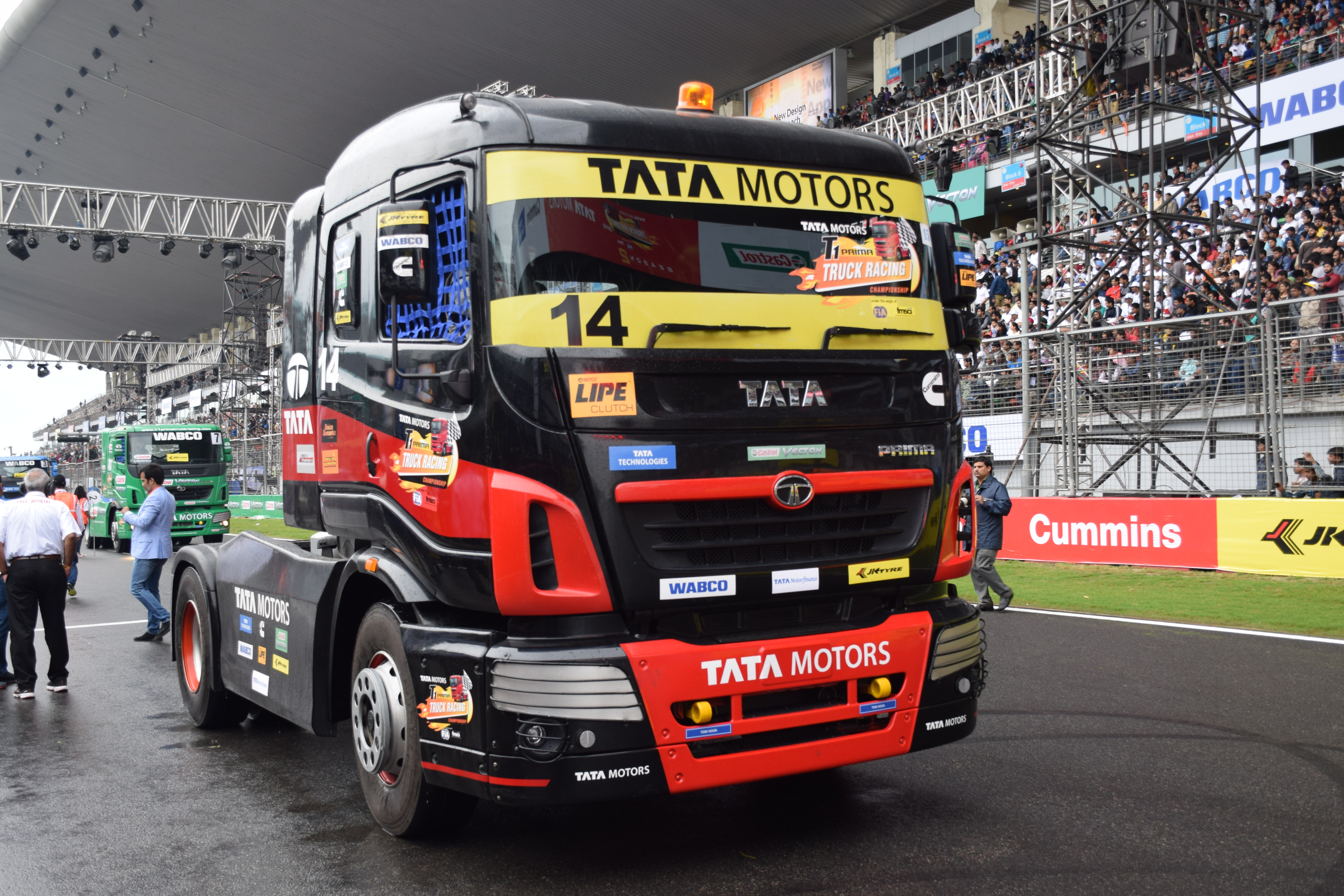 First ever truck racing in India started by Tata Motors. This has started in the year 2014 with British drivers. Season 3 in the year 2016 will go to the next level by introducing indian origin drivers for the first time in history of truck racing.